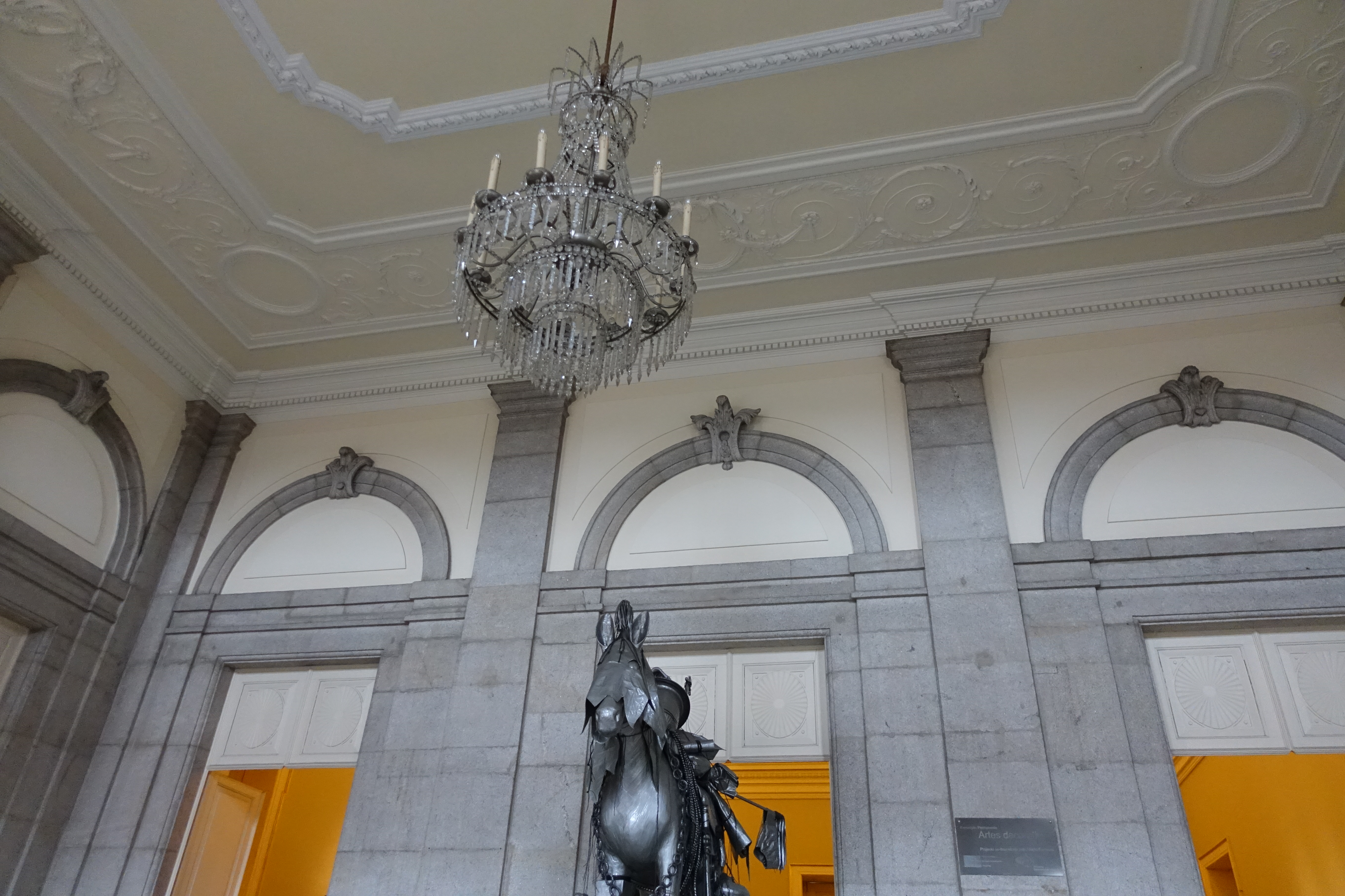 Museu Nacional de Soares dos Reis, Porto, Portugal.